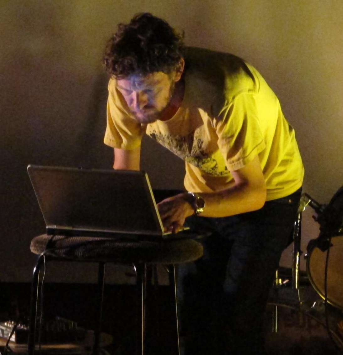 Rosy Parlane performing at the 2011 Lines of Flight festival at Chicks Hotel in Port Chalmers, Otago, New Zealand. Photograph by Sheridan Dickson.